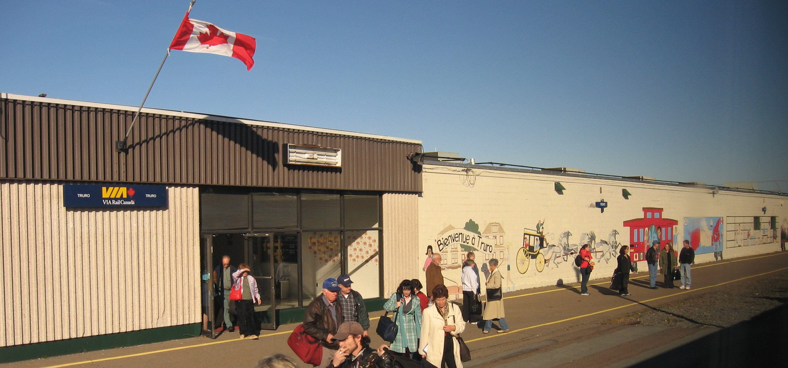 Truro, Nova Scotia railway station. Original picture taken by Sergio Ortega from the Ocean (passenger train) to Central Station (Montreal) on November 11, 2007.